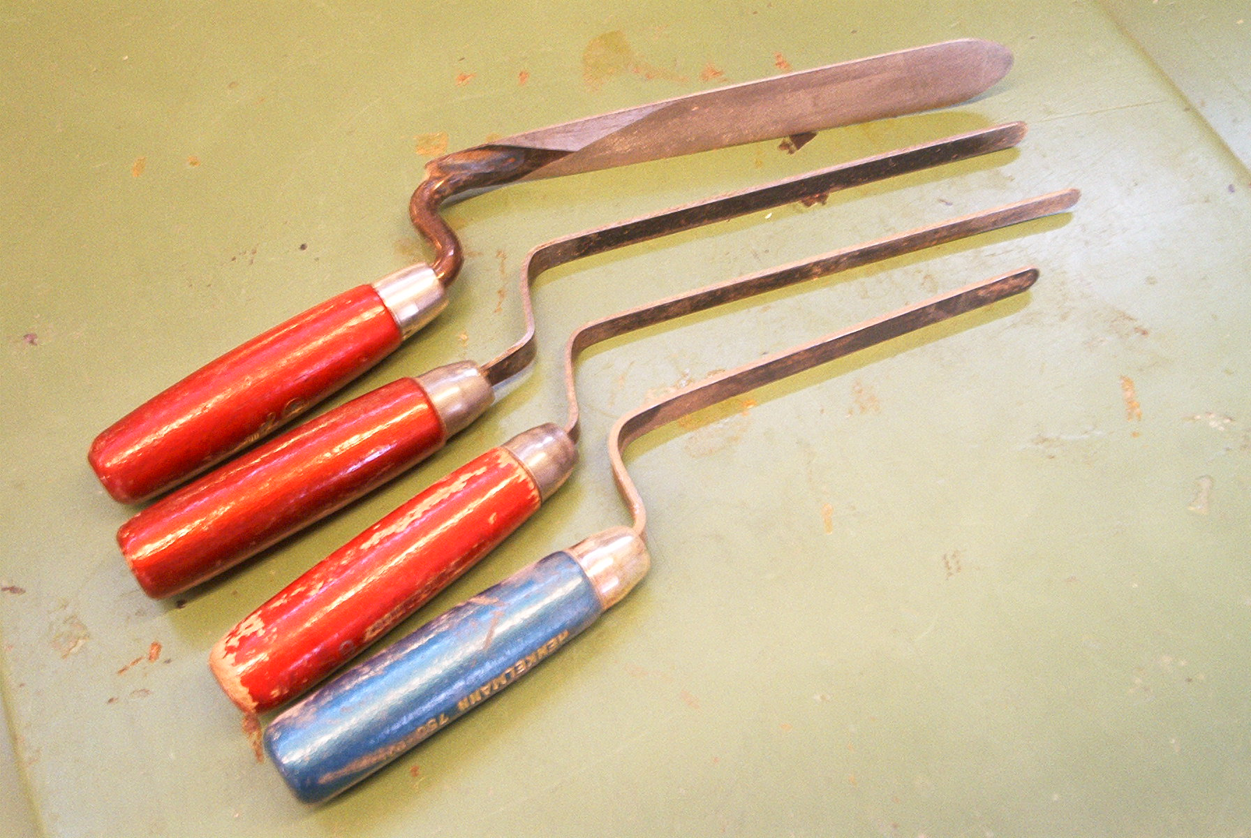 Pointing trowels.